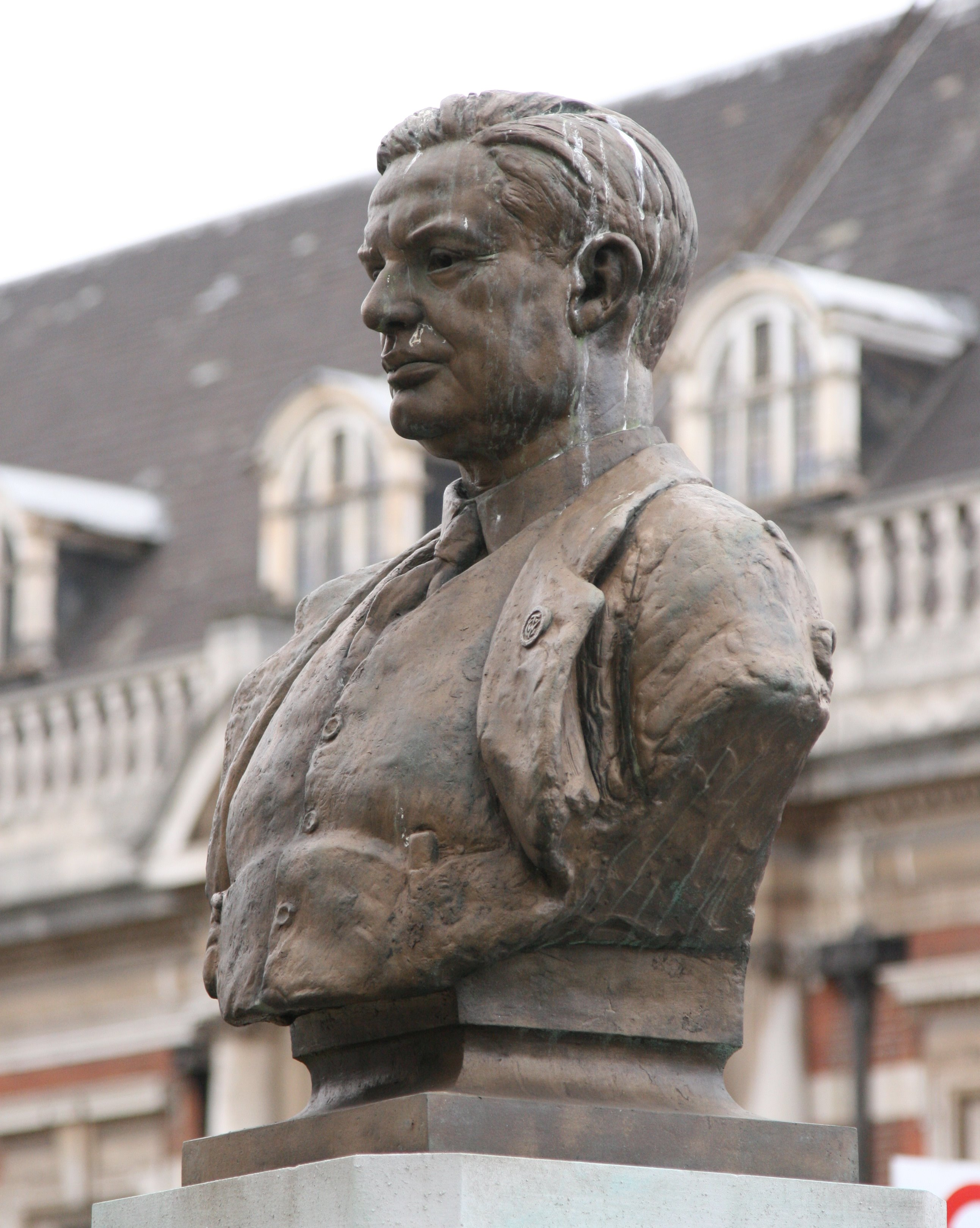 Statue of Ernest Bevin